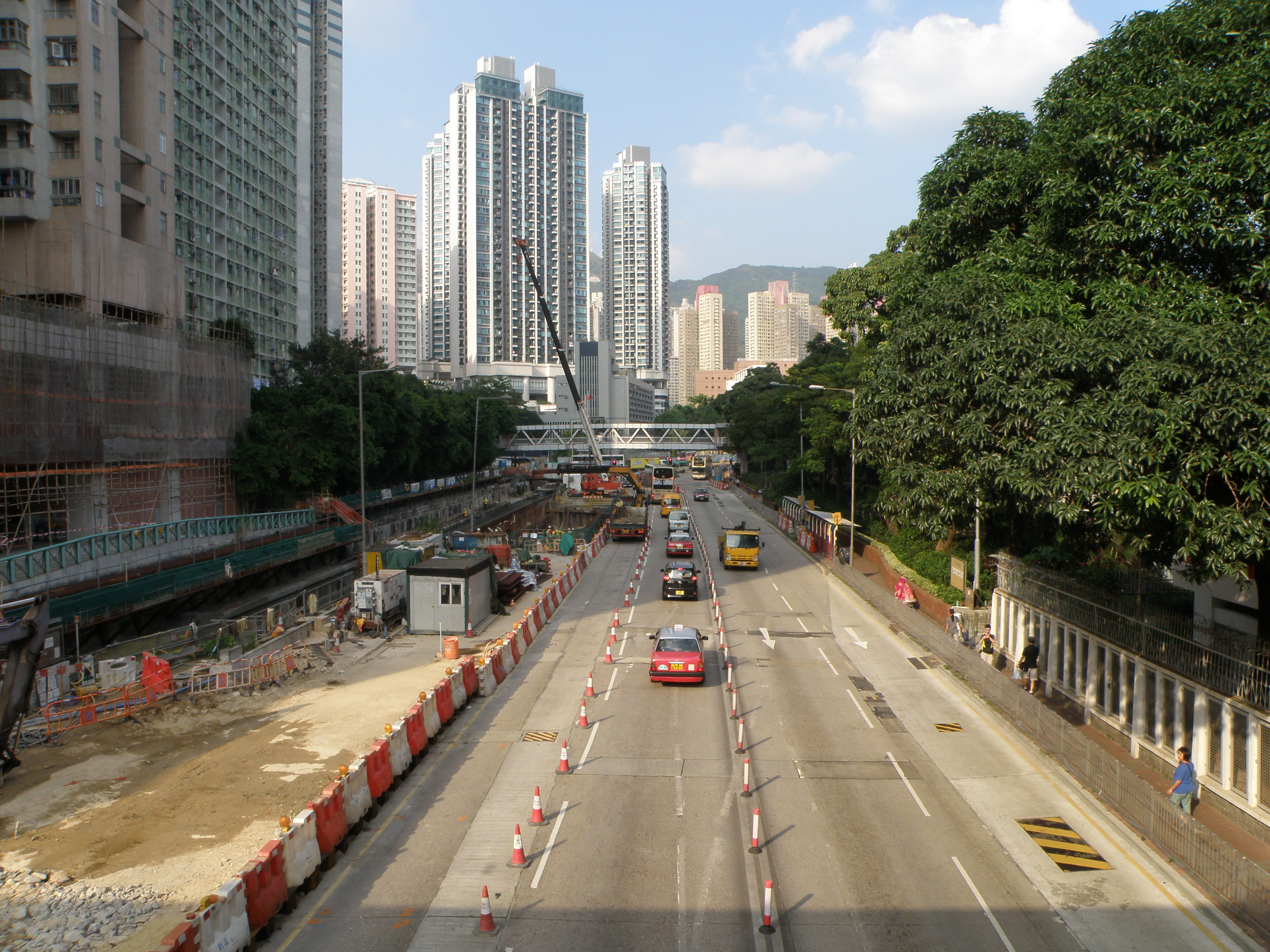 Choi Hung Road in San Po Kong, Hong Kong.